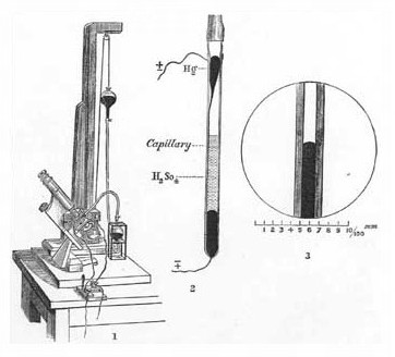 Lippmann electrometer, designed by Gabriel Lippmann in Heidelberg, Germany